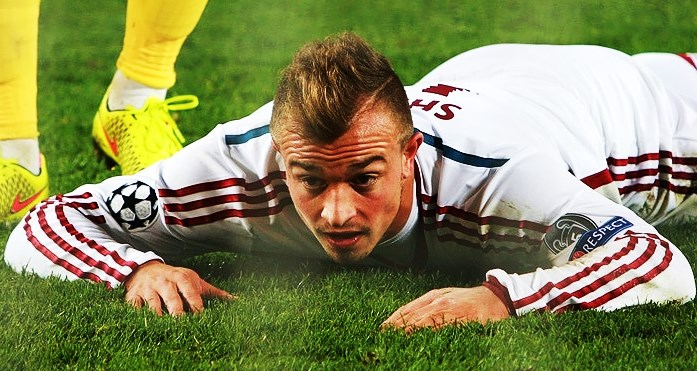 Xherdan Shaqiri